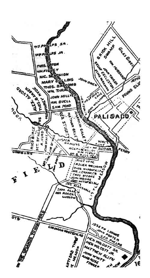 Enlarged portion of map of Windsor, Connecticut 1640-1654 showing area around the Palisade or fort.